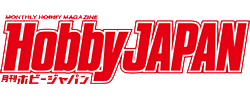 Monthly Hobby Japan (月刊ホビージャパン), a Japanese hobby magazine.